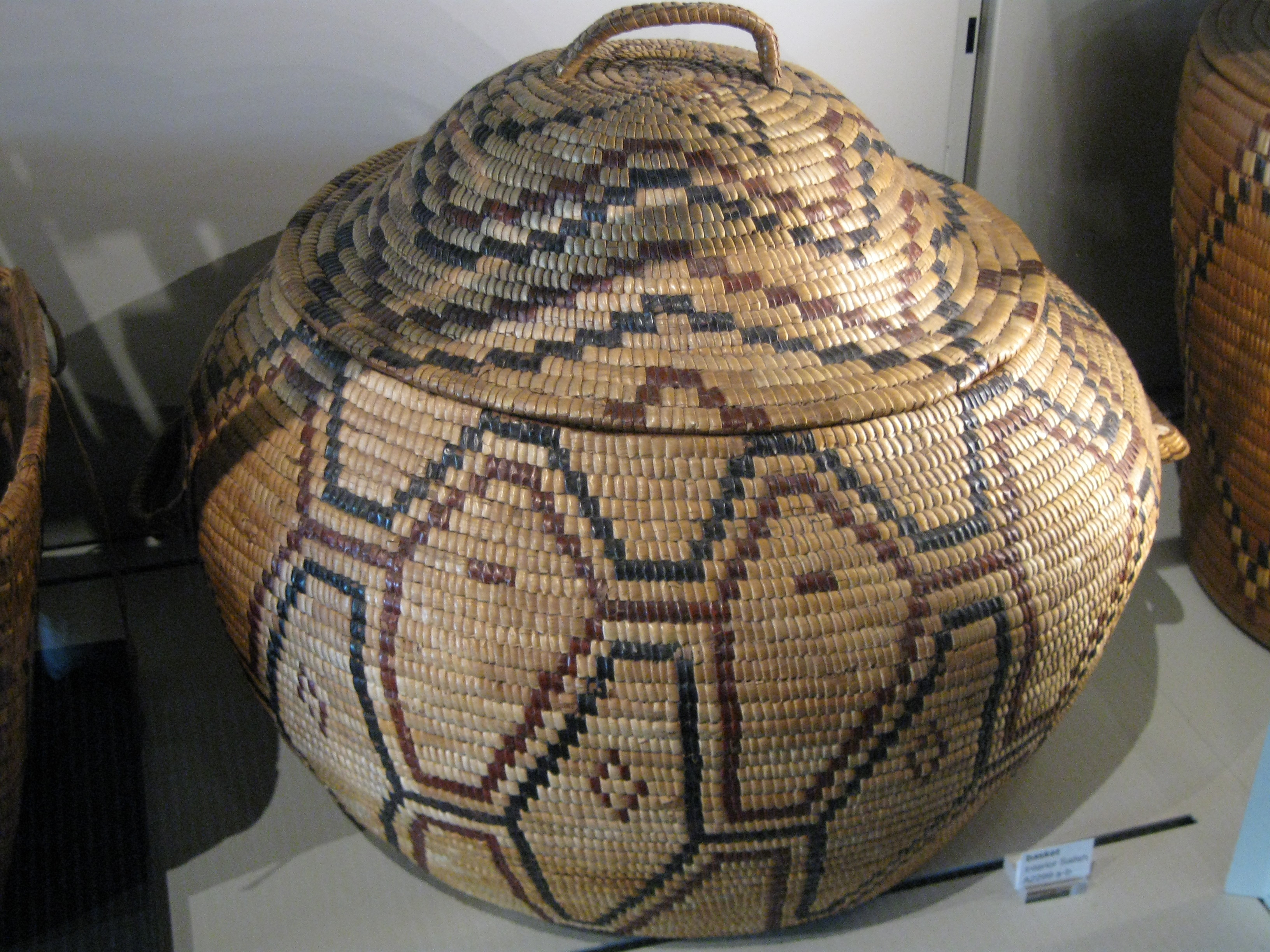 This is an intricately made interior BC Salish people's basket. It is part of the collection of UBC's Museum of Anthropology in Vancouver, Canada. This object's catalogue number is A2299a-b.